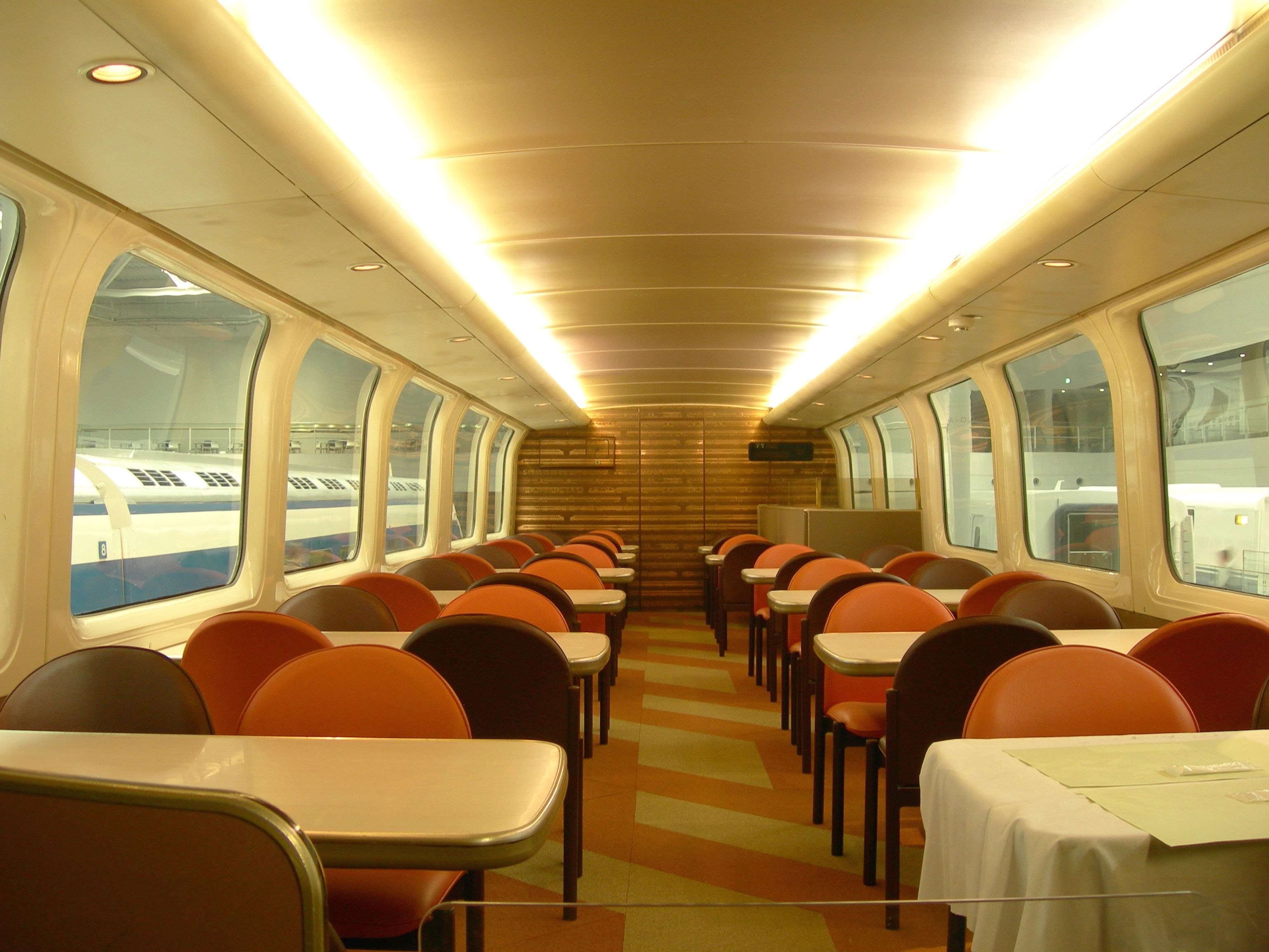 Interior view of 100 series shinkansen bilevel dining car 168-9001 preserved at the SCMaglev and Railway Park in Nagoya, Japan